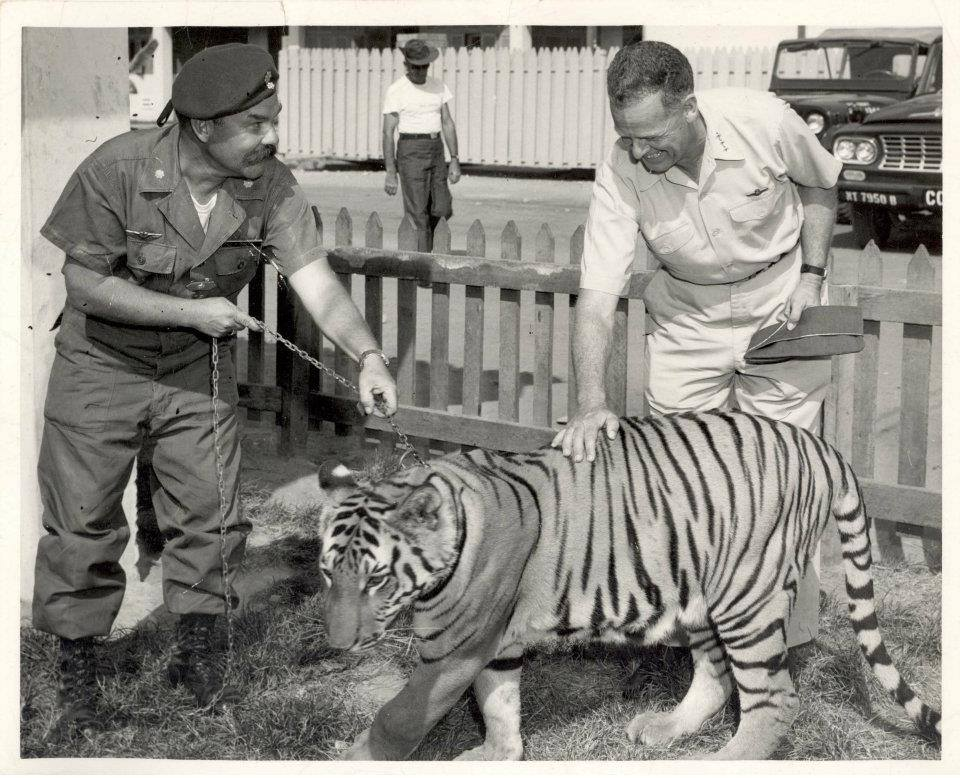 Lieutenant General Thomas Samuel Moorman with Tuffy The Tiger and Major Lawrence Altair Doyle in Sóc Trăng, Vietnam. May 1963.